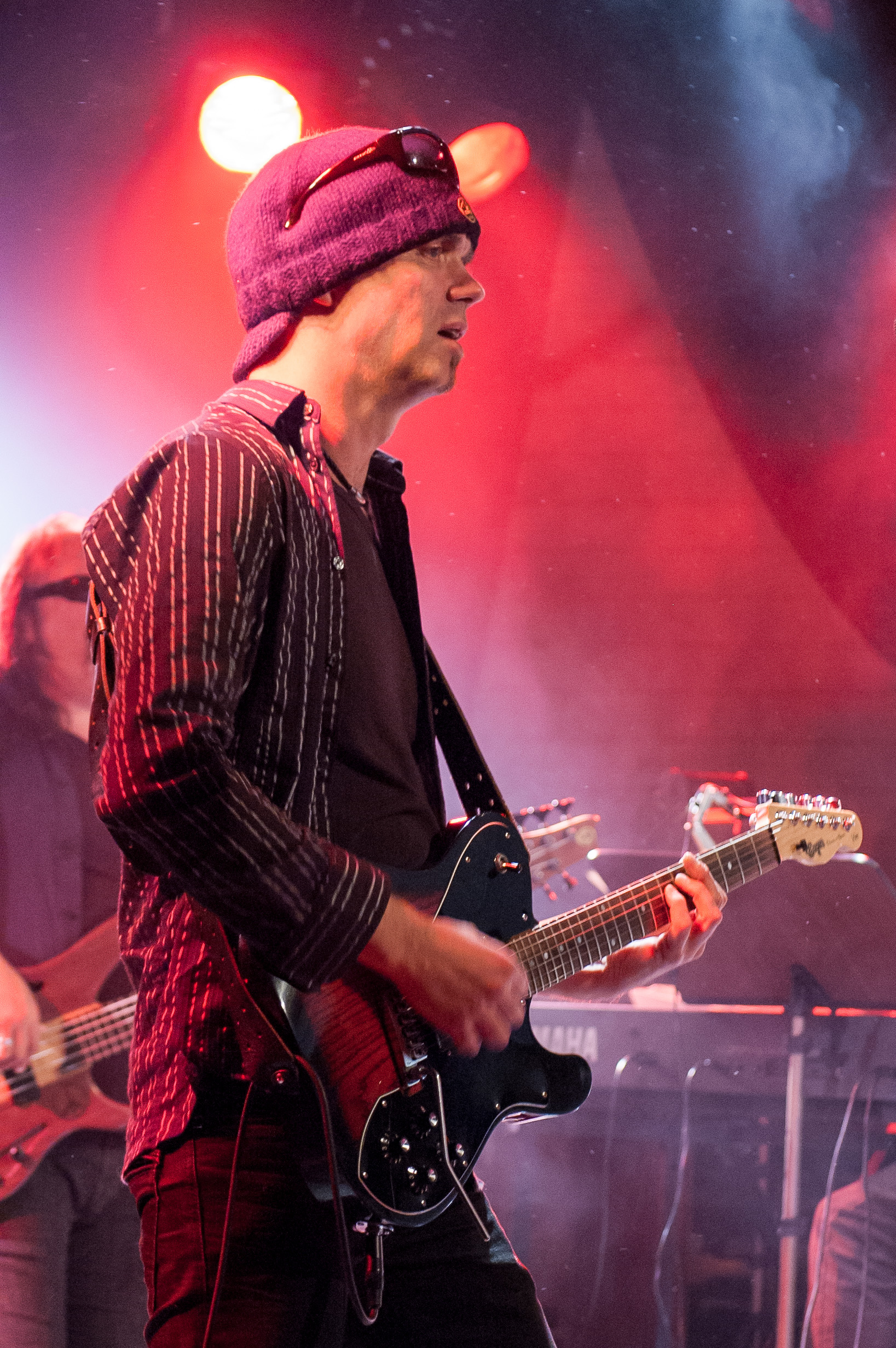 Mads Eriksen at Rootsfestivalen in Brønnøysund, July 2008Norsk bokmål: Mads Eriksen på Rootsfestivalen i Brønnøysund, juli 2008